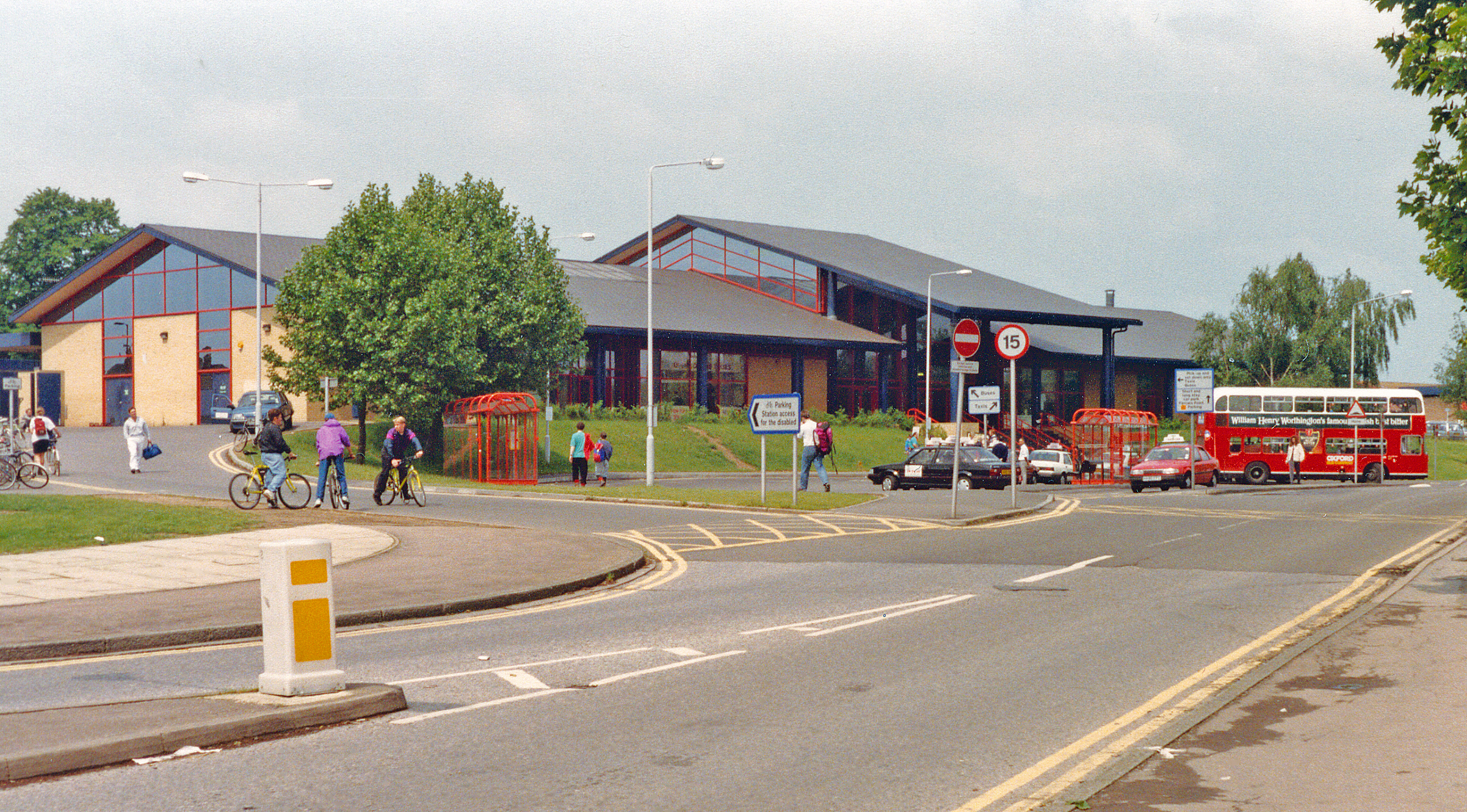 Oxford Station, exterior 1992. View northward of the approach off Botley Road, on the Up side towards Banbury, Worcester etc.: ex-GWR main line (London, Reading) - Didcot - Banbury - Birmingham etc., also Worcester etc. and various branches. The station was completely rebuilt in 1971.